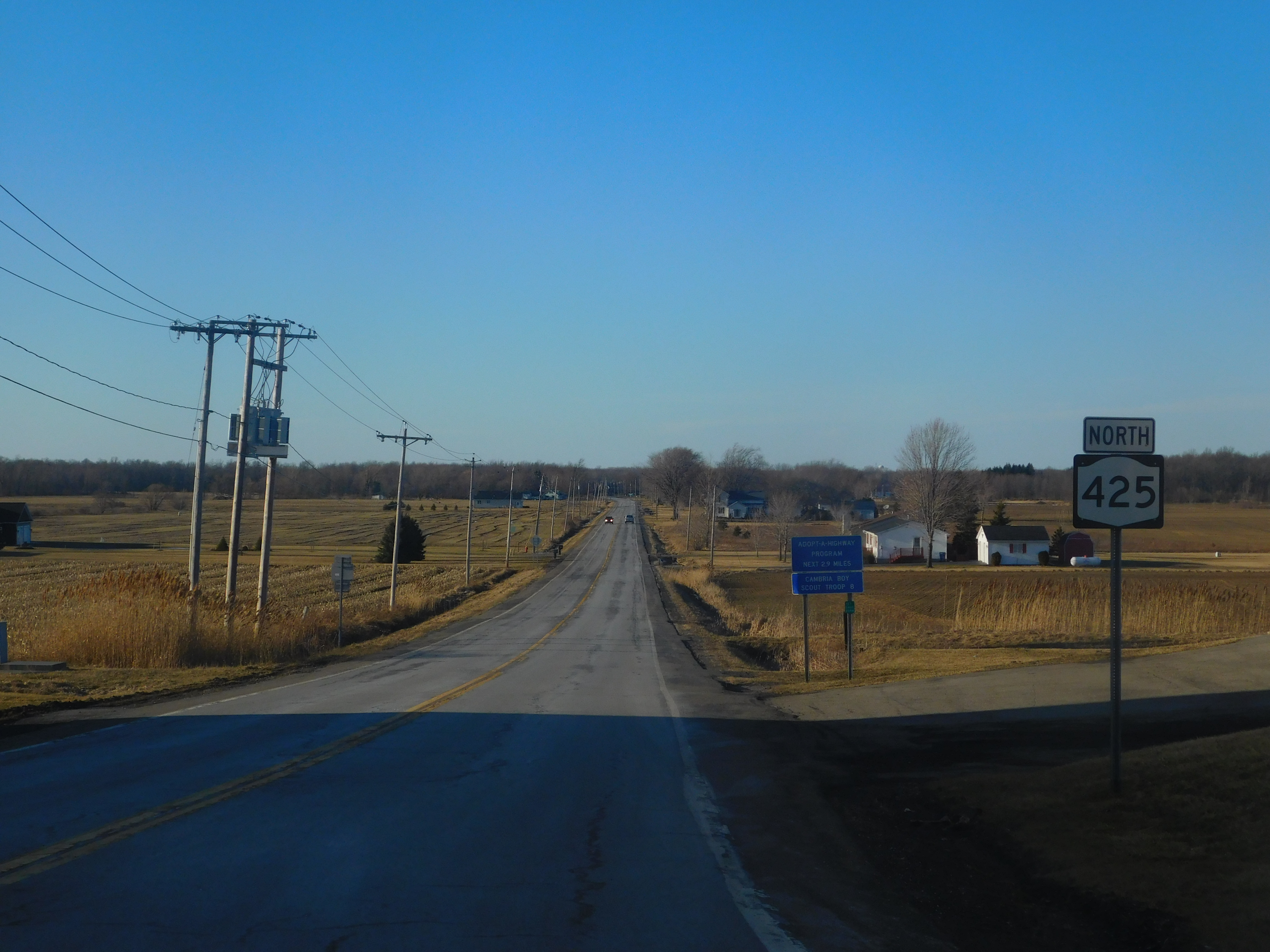 New York State Route 425 in Cambria Center, New York.